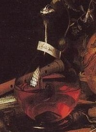 Detail van Vanitas, Kunsthistorisches Museum Wenen, zelfportret weerspiegeld in karaf